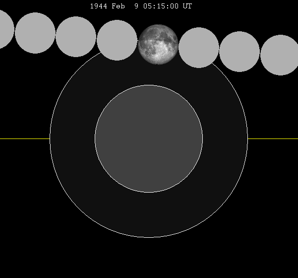 Lunar eclipse chart of moon's path through the earth's shadow. thumb